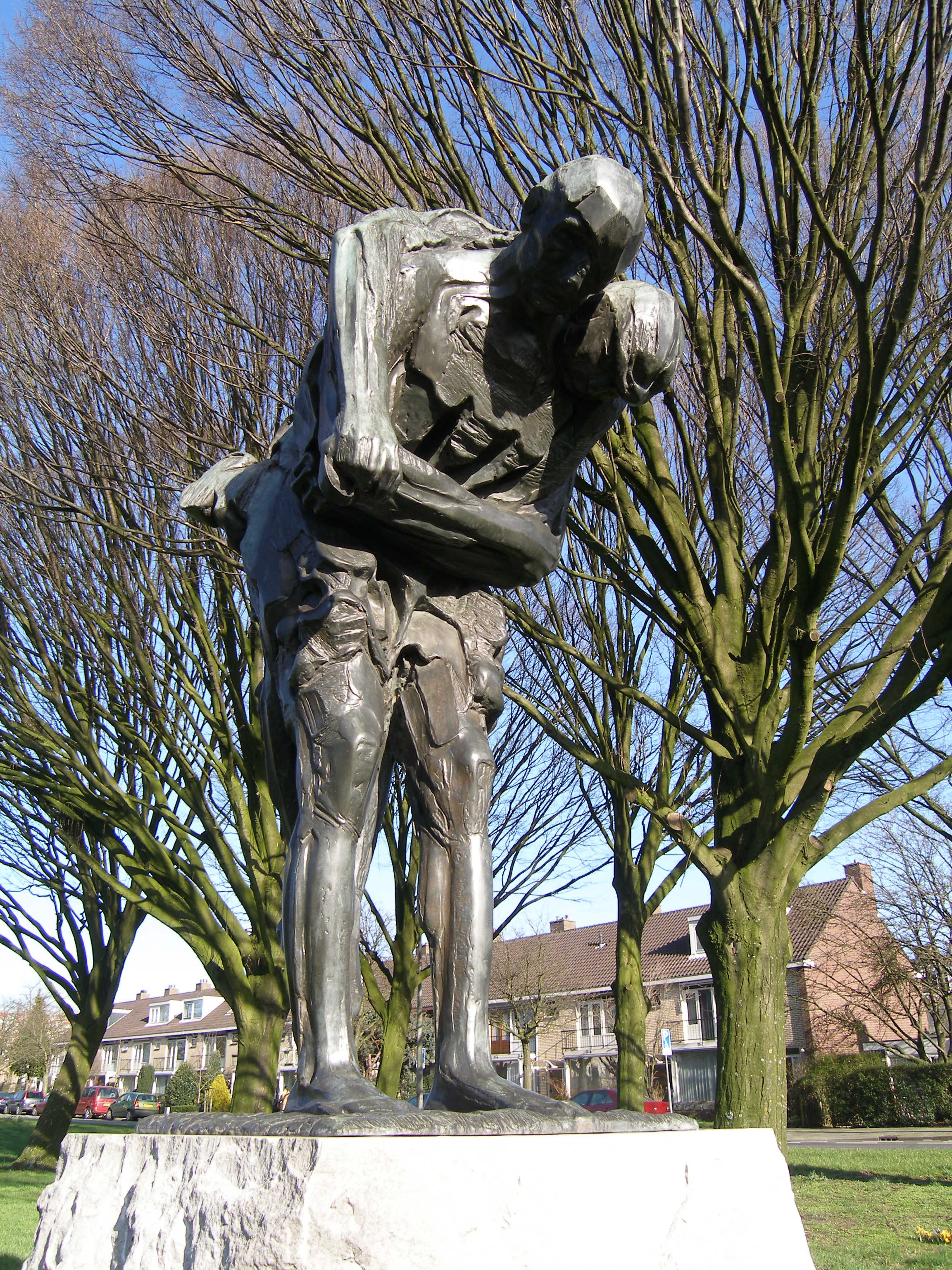 Sculpture "Barmhartige Samaritaan" (Good Samaritan) by Piet Esser in 1976. Placed at the Troosterlaan / Zwaardemakerlaan in Utrecht